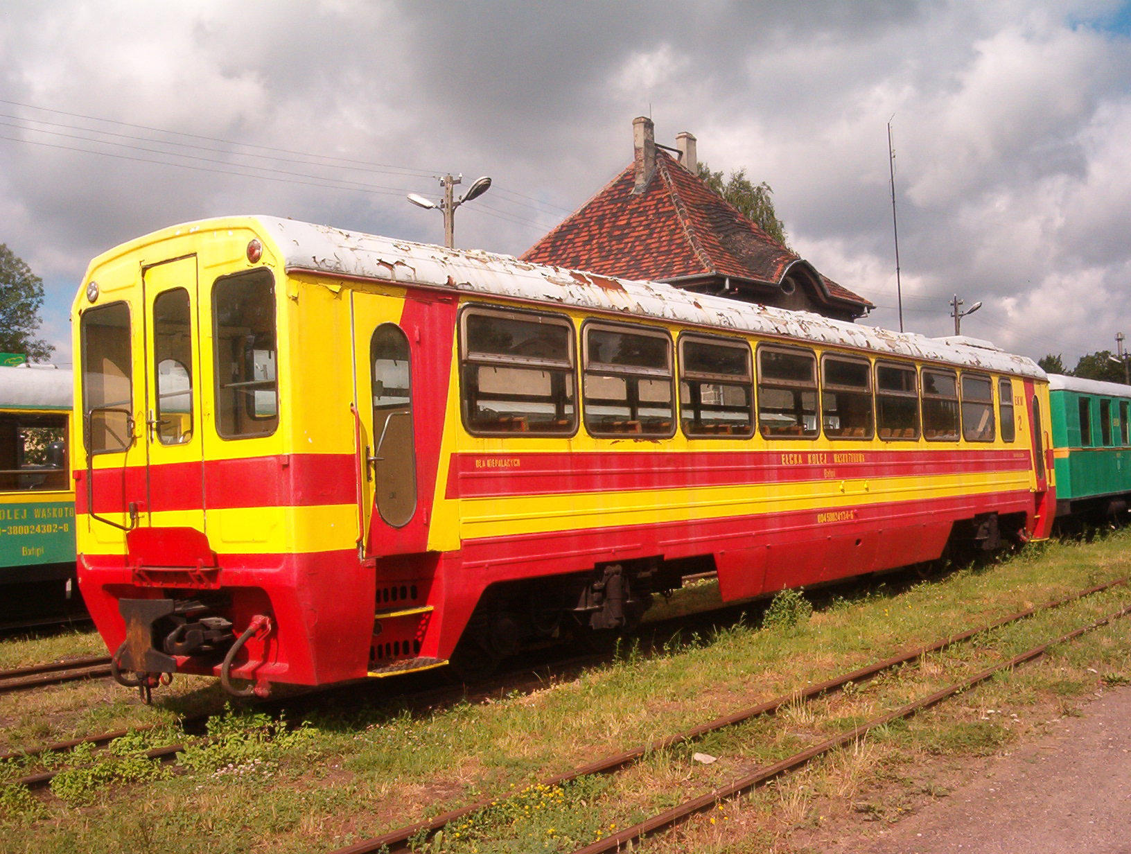 Narrow gauge passenger car A208P in Ełk (Lyck), Poland